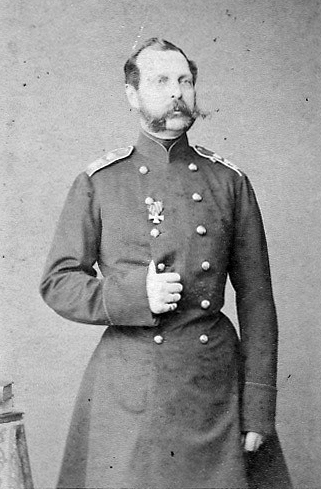 Description Russian Imperial Family Photo Source The Di Rocco Wieler Private Collection, Toronto, Canada Date 1860 Author LEVITSKY Sergei Lvovich (1819-98, Moscow)